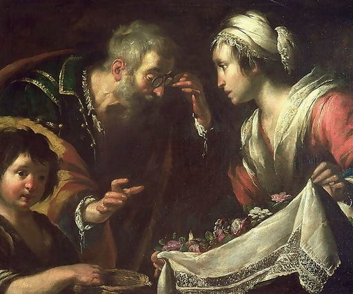 Miracle of St Zita